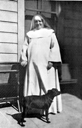 mother maria pia backes and her dog